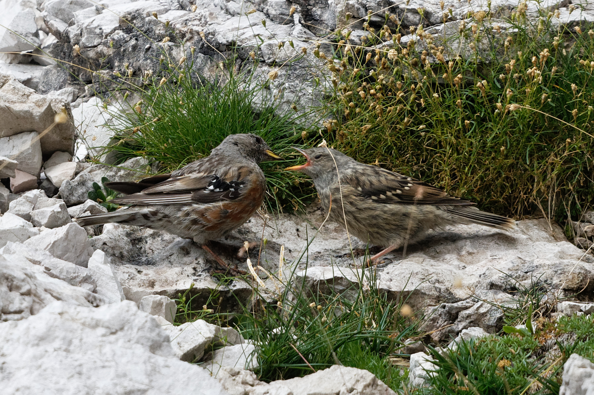 Alpine Accentor feeding its young at the Cinque Torri in Dolomites.